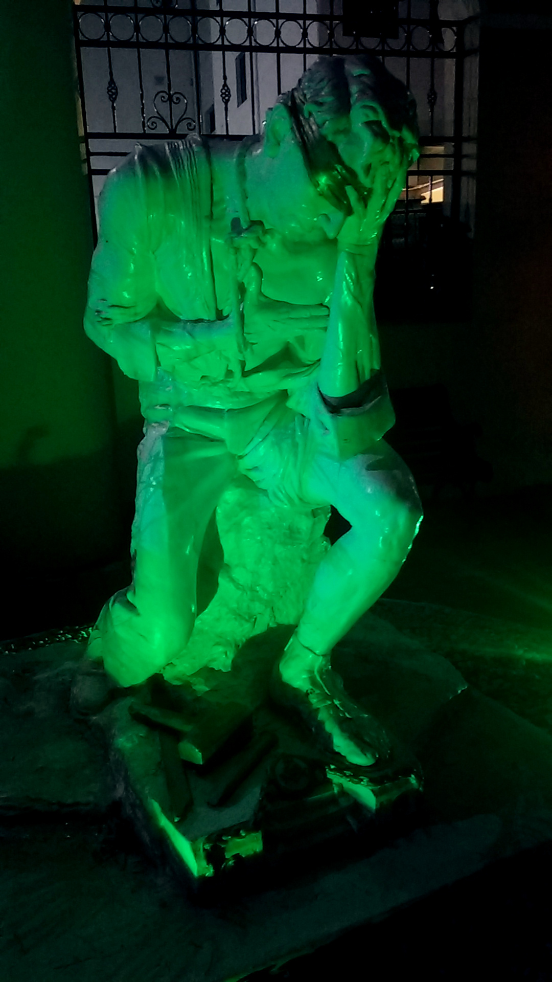 Sculpture representing a Freemason apprentice during his initiation. It is located in "Gran Logia de Colombia con sede en Bogotá" (Colombia's Grand Lodge seated in Bogota).